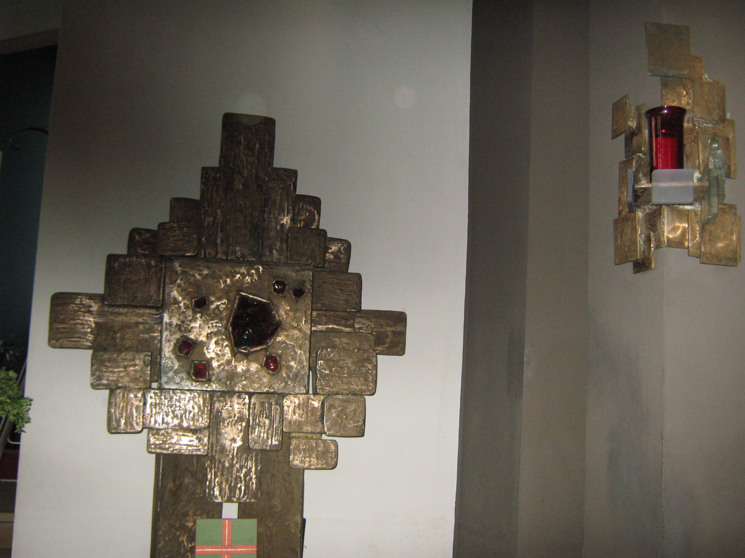 Tabernacle in the church Maria Königin (Queen mary) Lüdenscheid in Germany